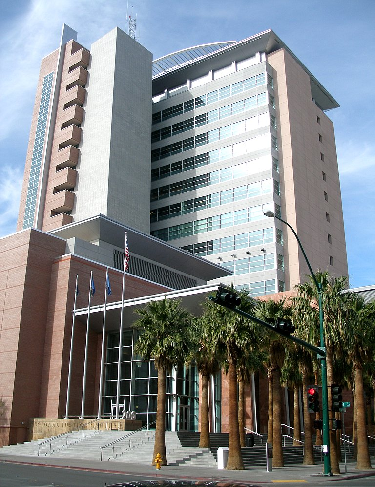 The Regional Justice Center in Downtown Las Vegas. Like many postmodern buildings, the RJC is not perfectly rectangular, which is why some of the lines in the photo appear strange.